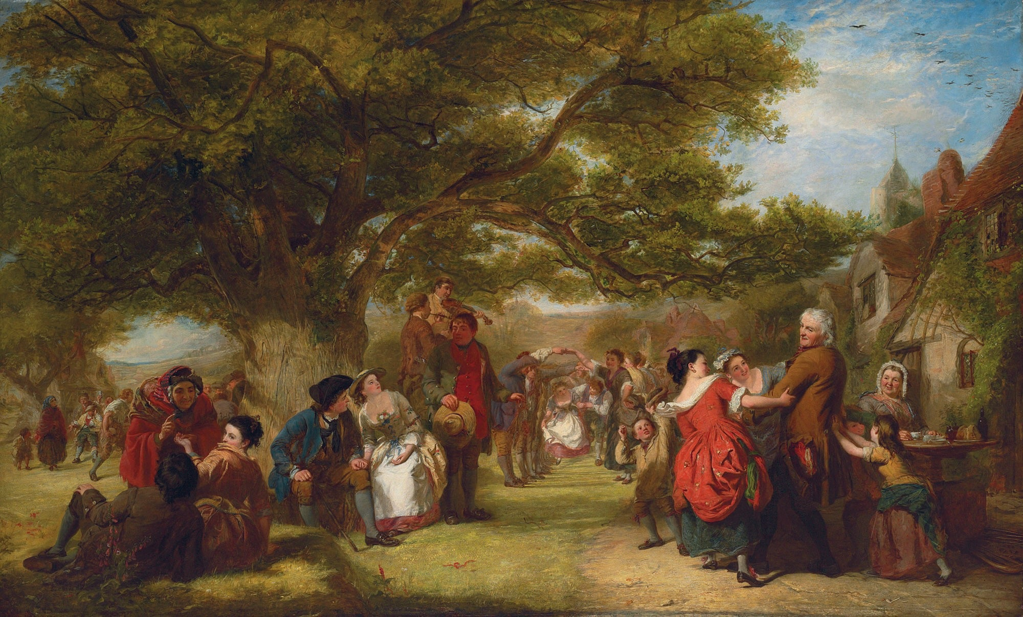 "When the merry bells ring round,And jocund rebecks soundTo many a youth and many a maidDancing in the checquered shade,And young and old come forth to playOn a sunshine holiday" - Milton's L'Allegro